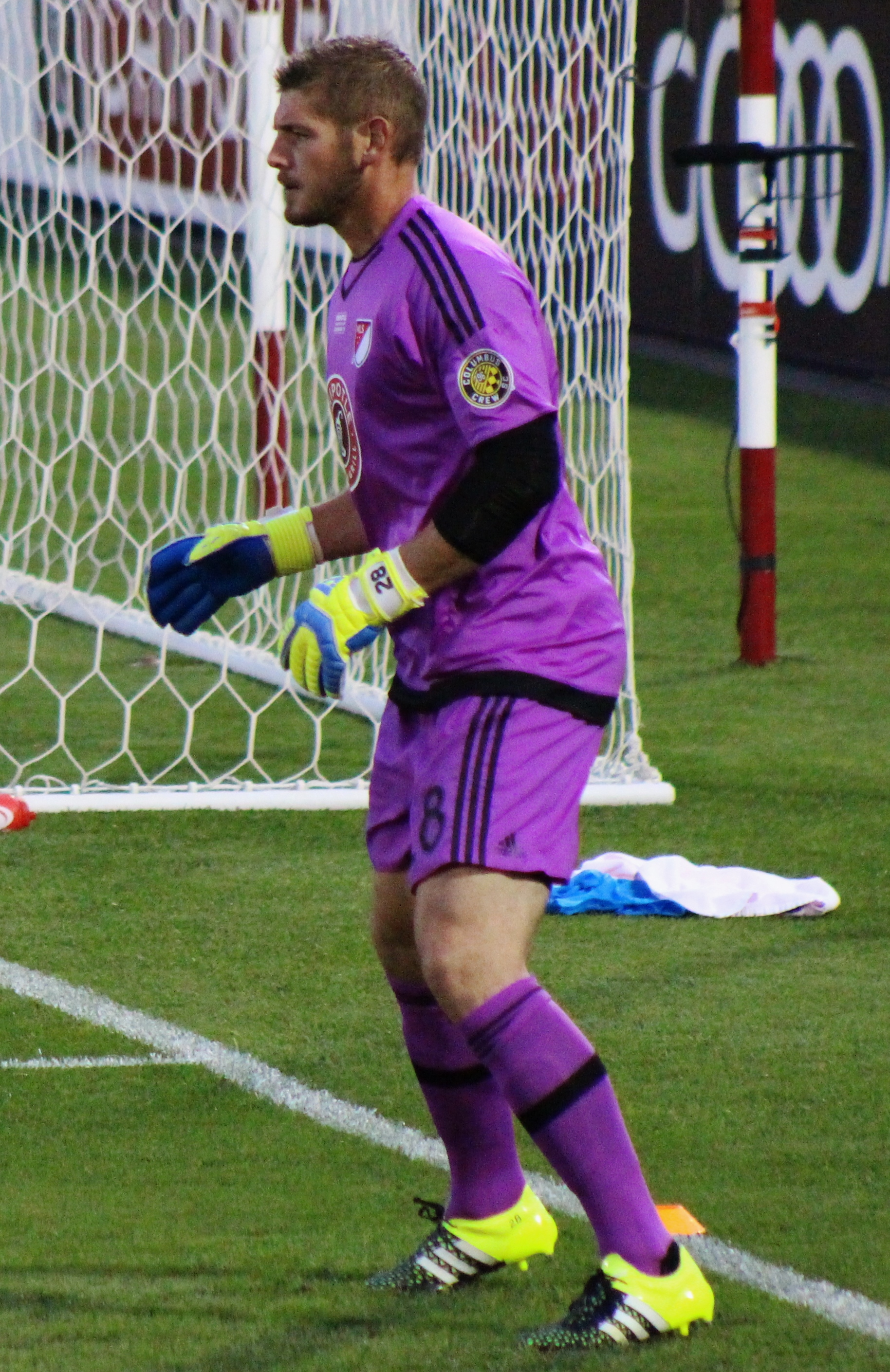 Matt Lampson